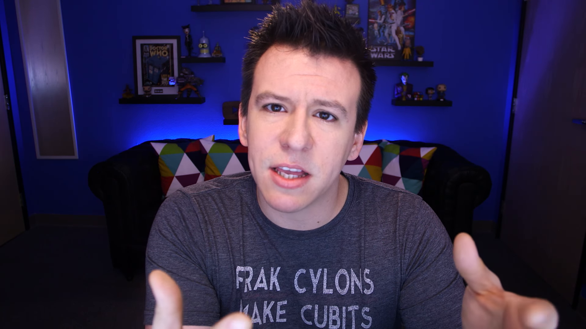 Still frame from a Philip DeFranco video published in December 2016.